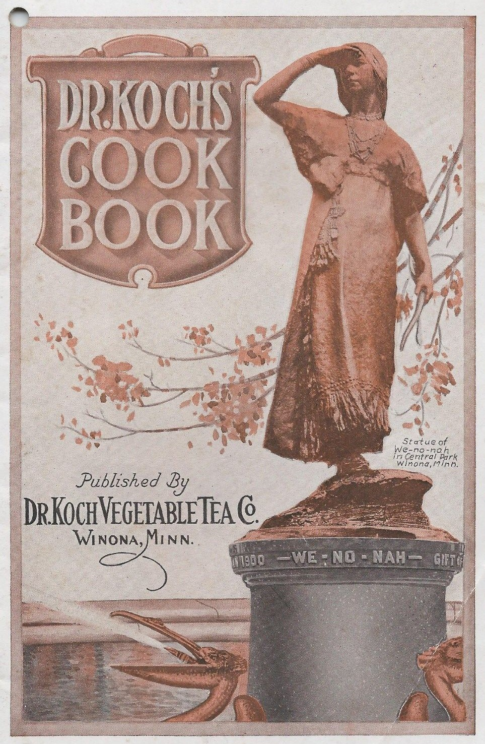 1900 statue of "We-no-nah" in the Central Park Fountain in Winona, Minnesota, United States on the front cover of a promotional cookbook published in 1922 by Dr. Koch Vegetable Tea Company